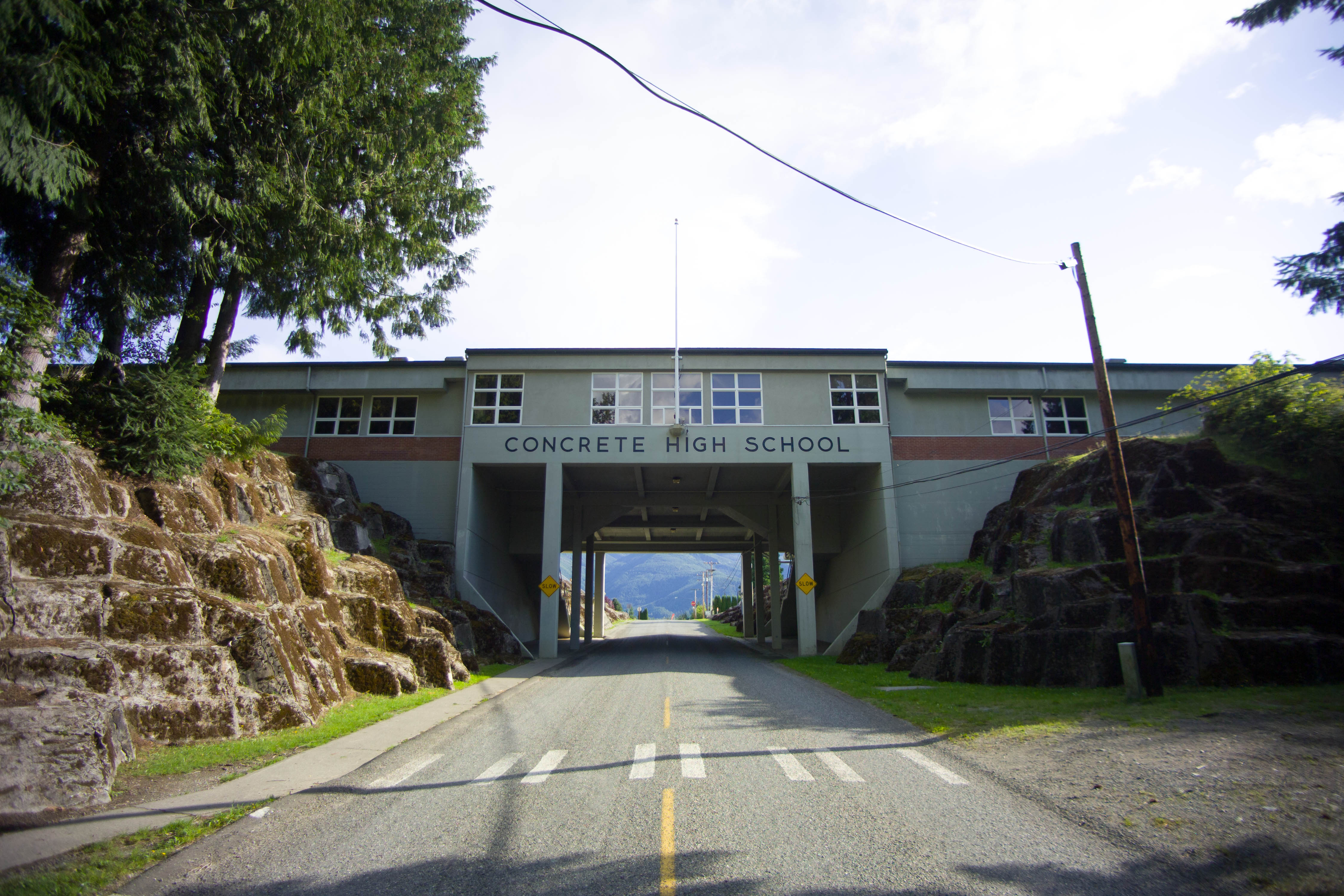 South Superior Avenue passes beneath the high school in Concrete, Washington.